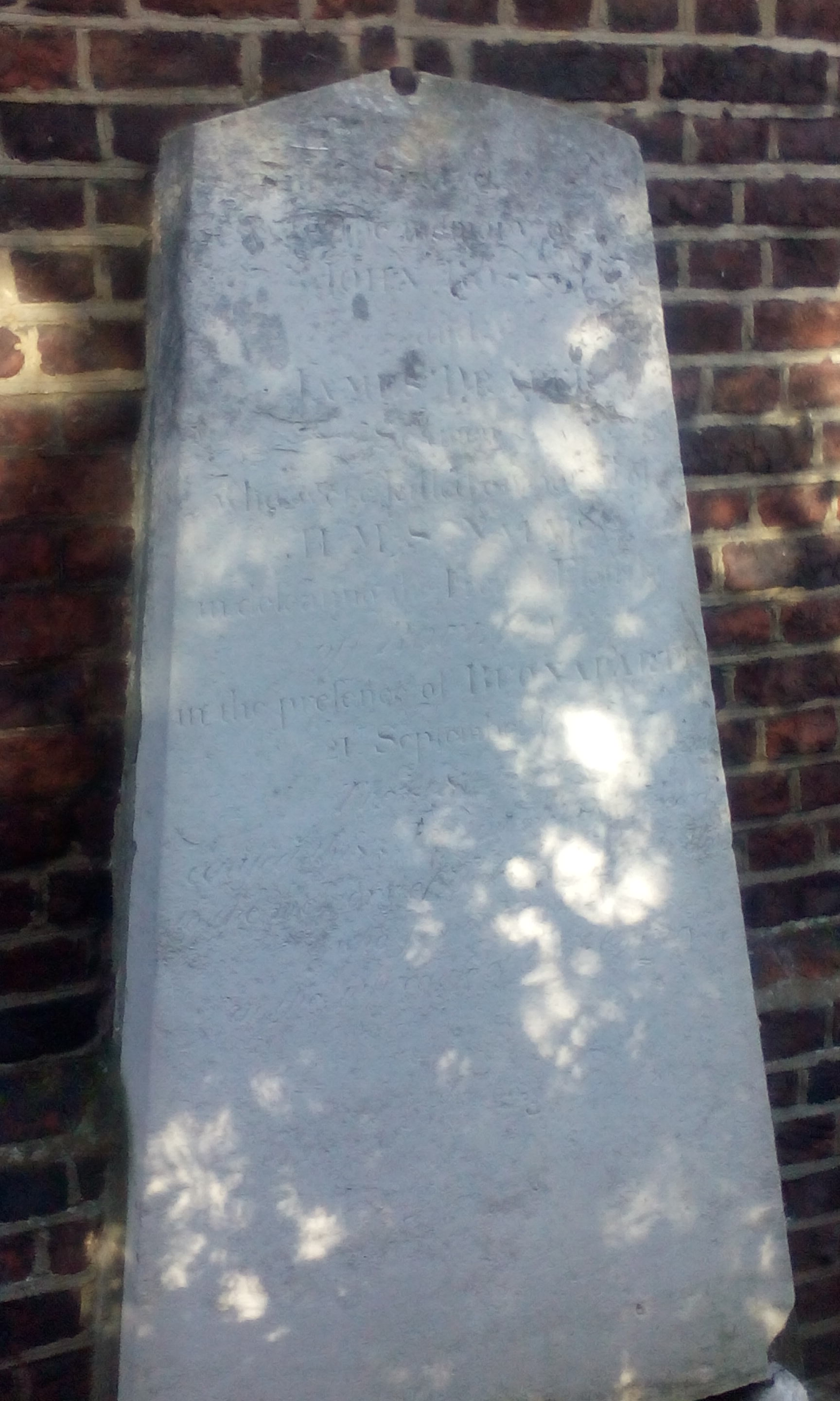 Memorial in the churchyard of St George's, Deal, Kent, UK. 'Sacred to the memory of / John Ross and James Draper / seamen / who were killed on board / of HMS NAIAD / in defeating the French Fleet / off Boulogne in the presence of BUONAPARTE / 21ST Sept 1811. /Their shipmates / caused this monument to / be erected / to the memory of the truly good men, /who so nobly fell / in the just cause of their Country'